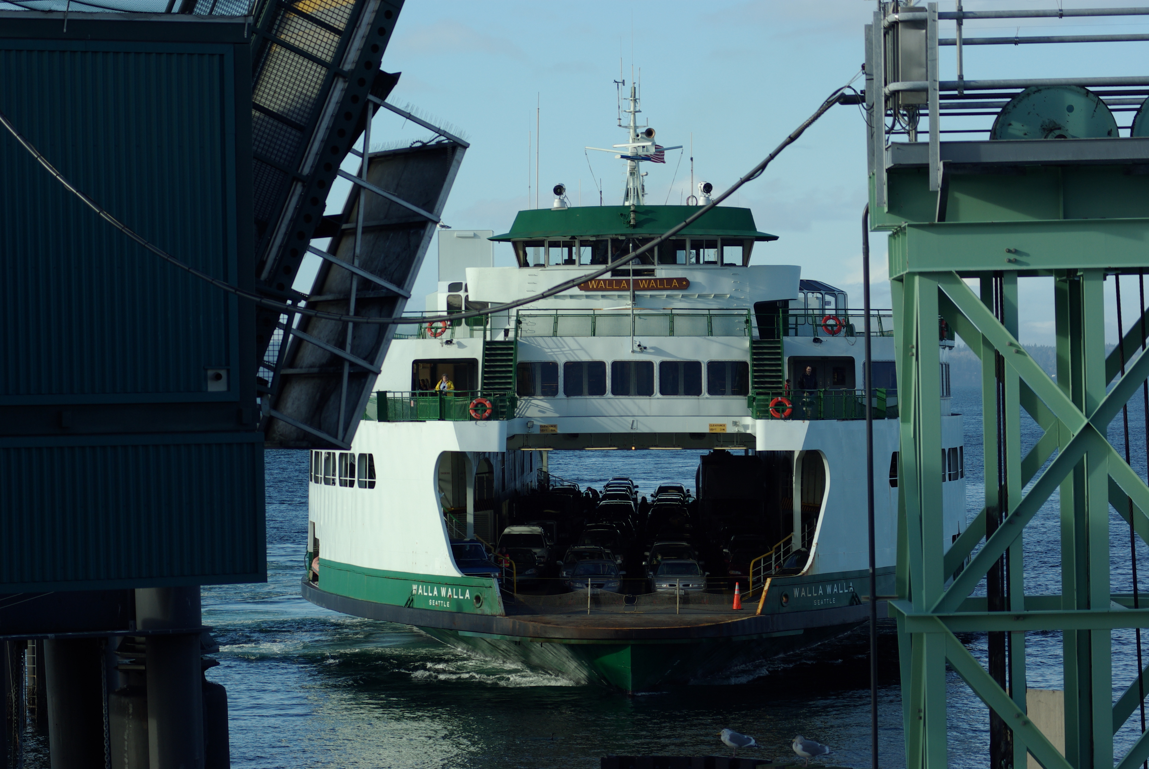 The ship Walla Walla of Washington State Ferries pulls into Edmonds, Washington